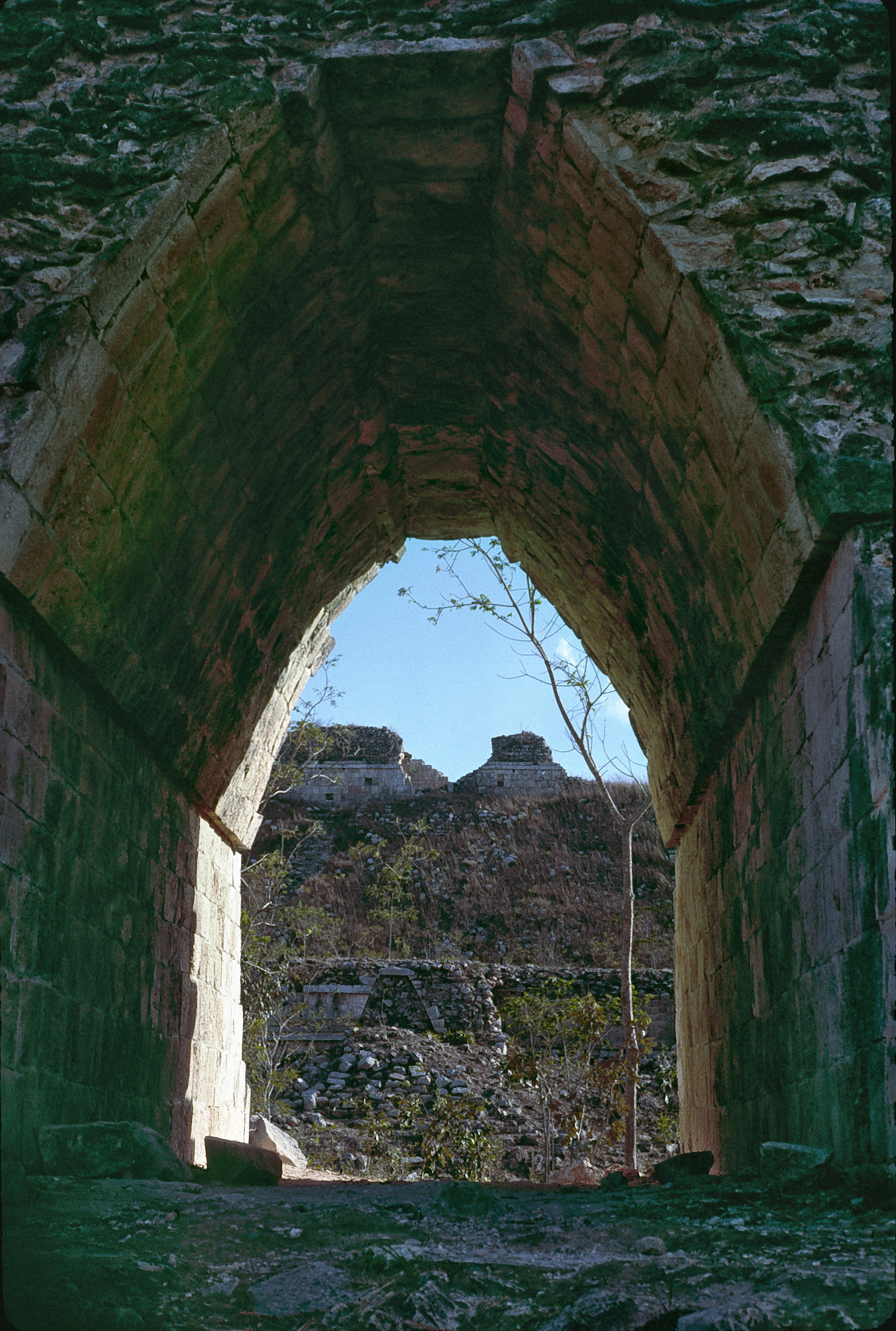 Uxmal, Yucatan, Mexico: Palomas archway towards South Pyramid